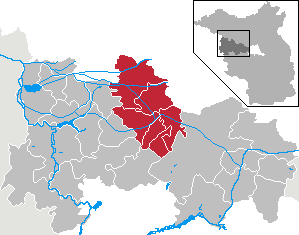 Amt Friesack in Brandenburg (Country) - District Havelland